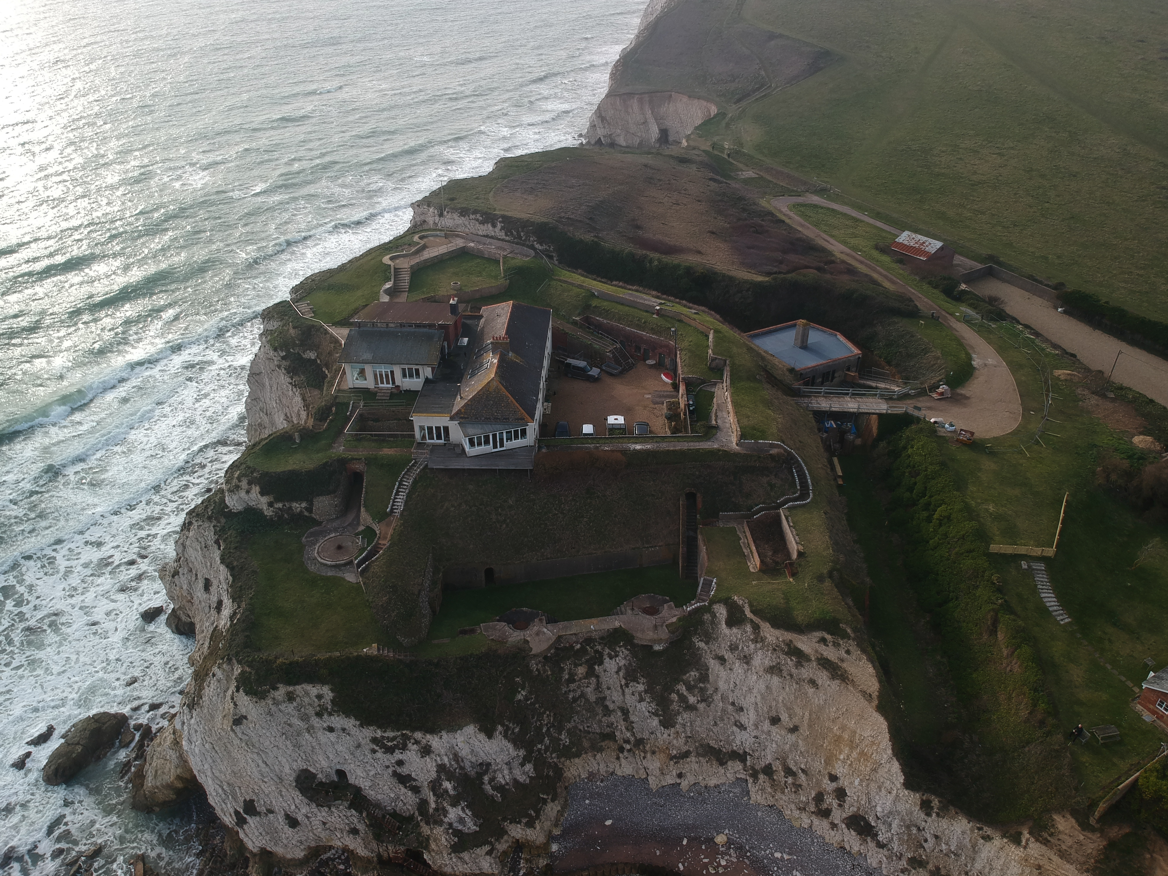 Fort Redoubt Feb 2018 from Drone, showing courtyard and main buildings